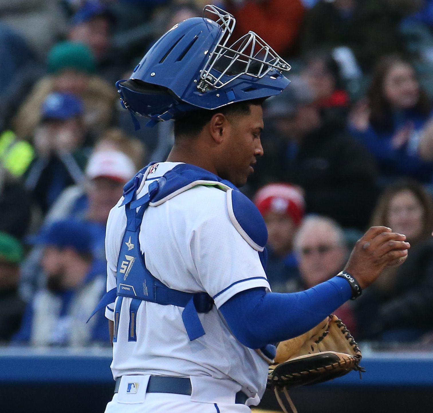 Meibrys Viloria of the Omaha Storm Chasers at Werner Park in Omaha in March 2019